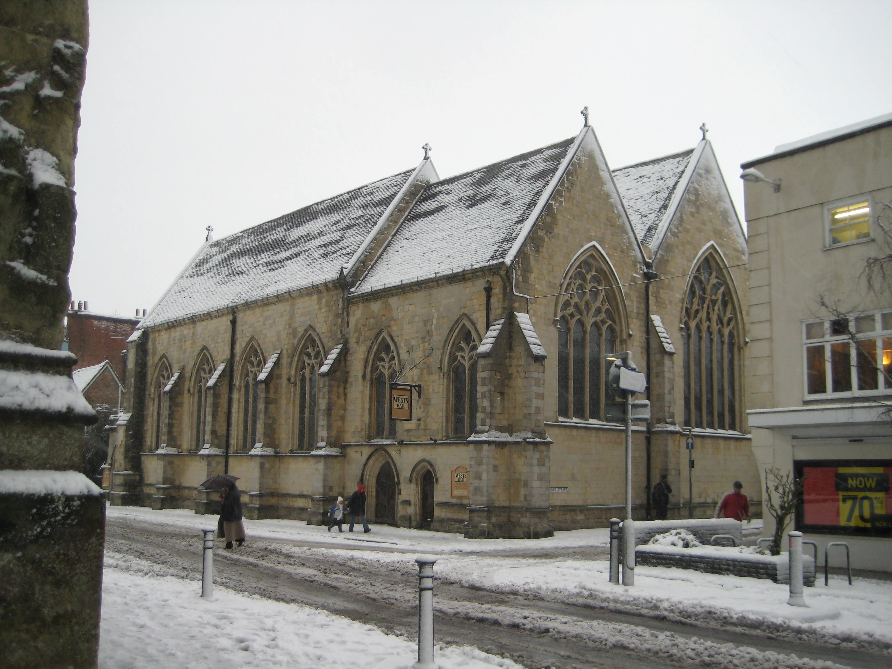 Former parish church of St Peter-the-Great, West Street, Chichester, West Sussex, England, seen from the southeast. Now redundant and deconsecrated. It was first converted into St Peter's Arcade of small shops. Since then it has been a bar called The Slurping Toad and is now Wests Bar.